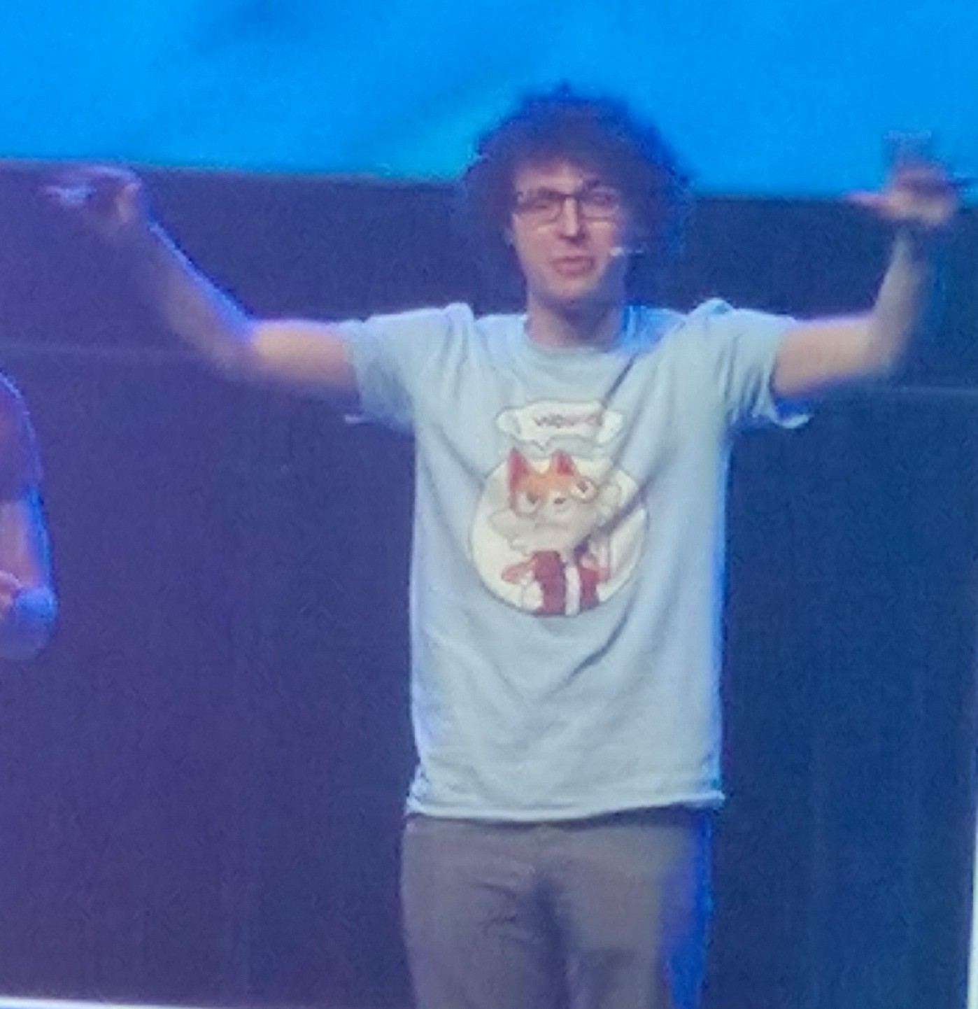 Joseph Garrett aka Stampy Longnose on stage at Minecon 2015. I took the photo myself.